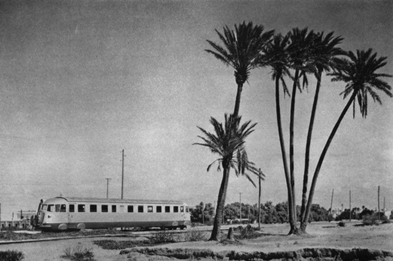 Fiat train passing in to Cyrenaica countryside.